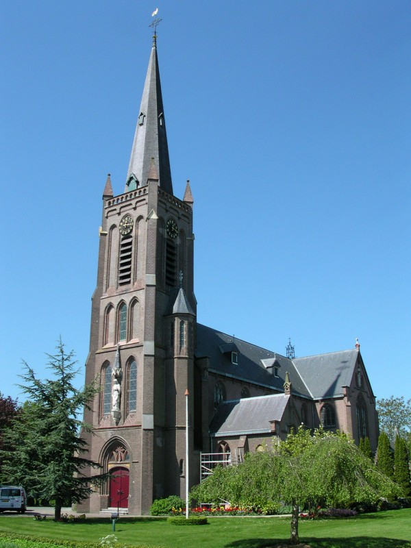 De St. Cunerakerk in Nibbixwoud. The church St. Cunerakerk in the village of Nibbixwoud.